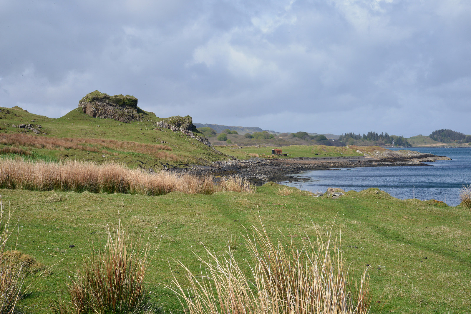 Caisteal nan Con - 'the Dogs' Castle' a former stronghold of the Campbells and later of the MacDougalls, may be ascribed to the later Middle Ages.